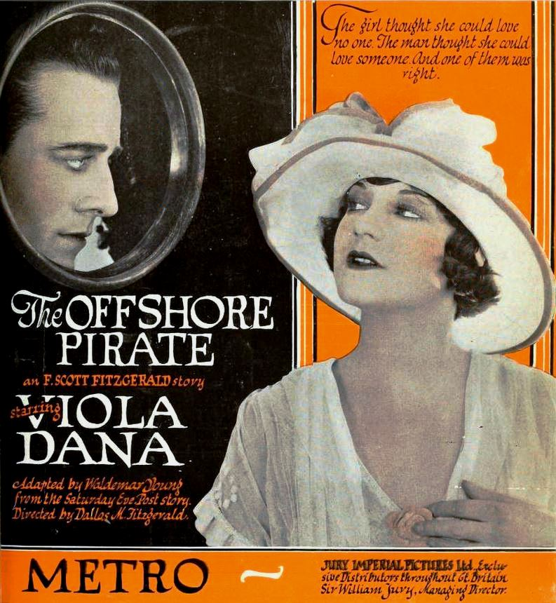 Ad for the American film The Off-Shore Pirate (1921) with Viola Dana and Jack Mulhall, on the cover of the January 30, 1921 Film Daily.